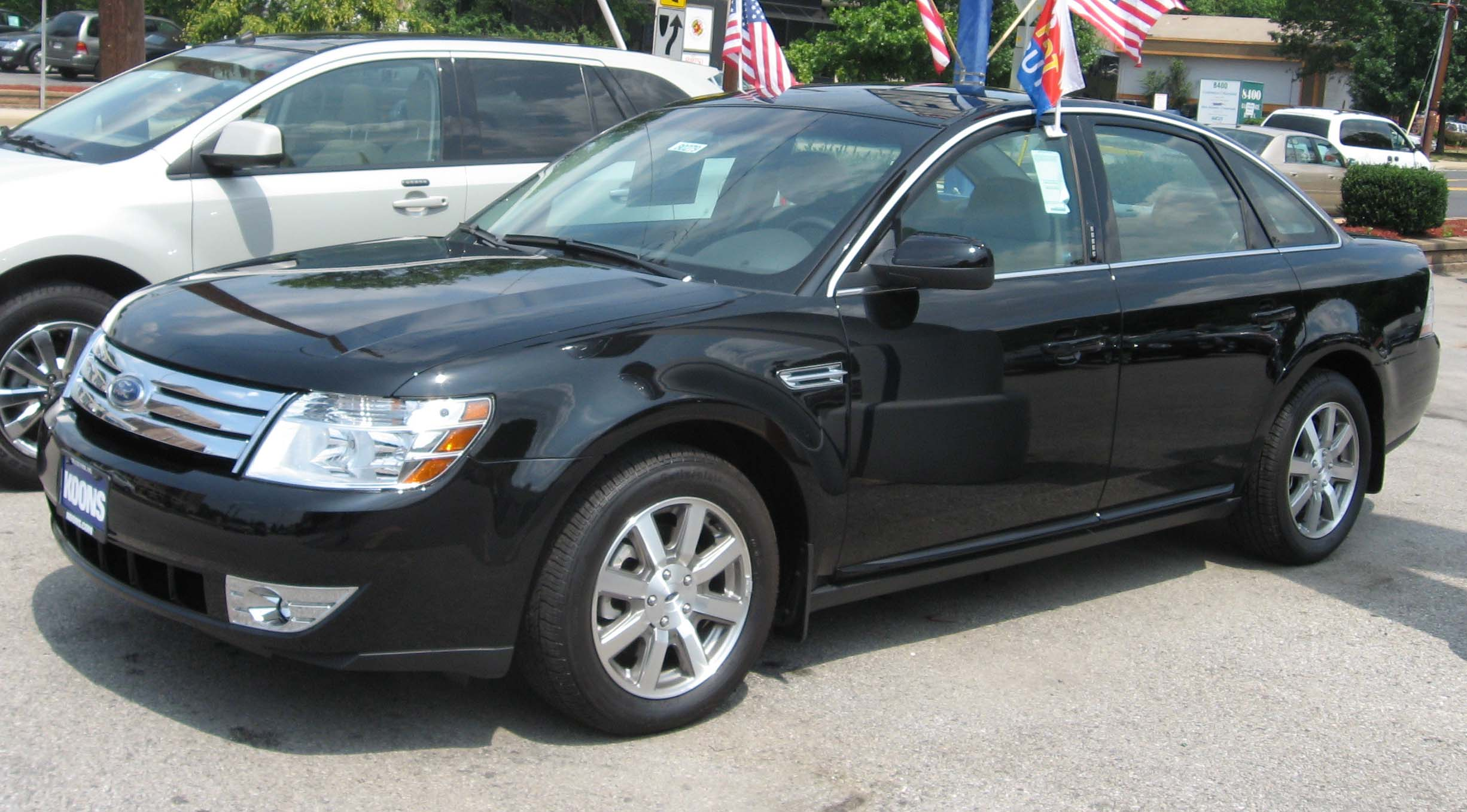 2008 Ford Taurus photographed in USA.